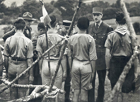 General de Gaulle visiting in 1940 in Brynbach the scout camp of the Éclaireurs français en Grande-Bretagne (« French scouts in Great Britain »), the scout movement of the Free French.